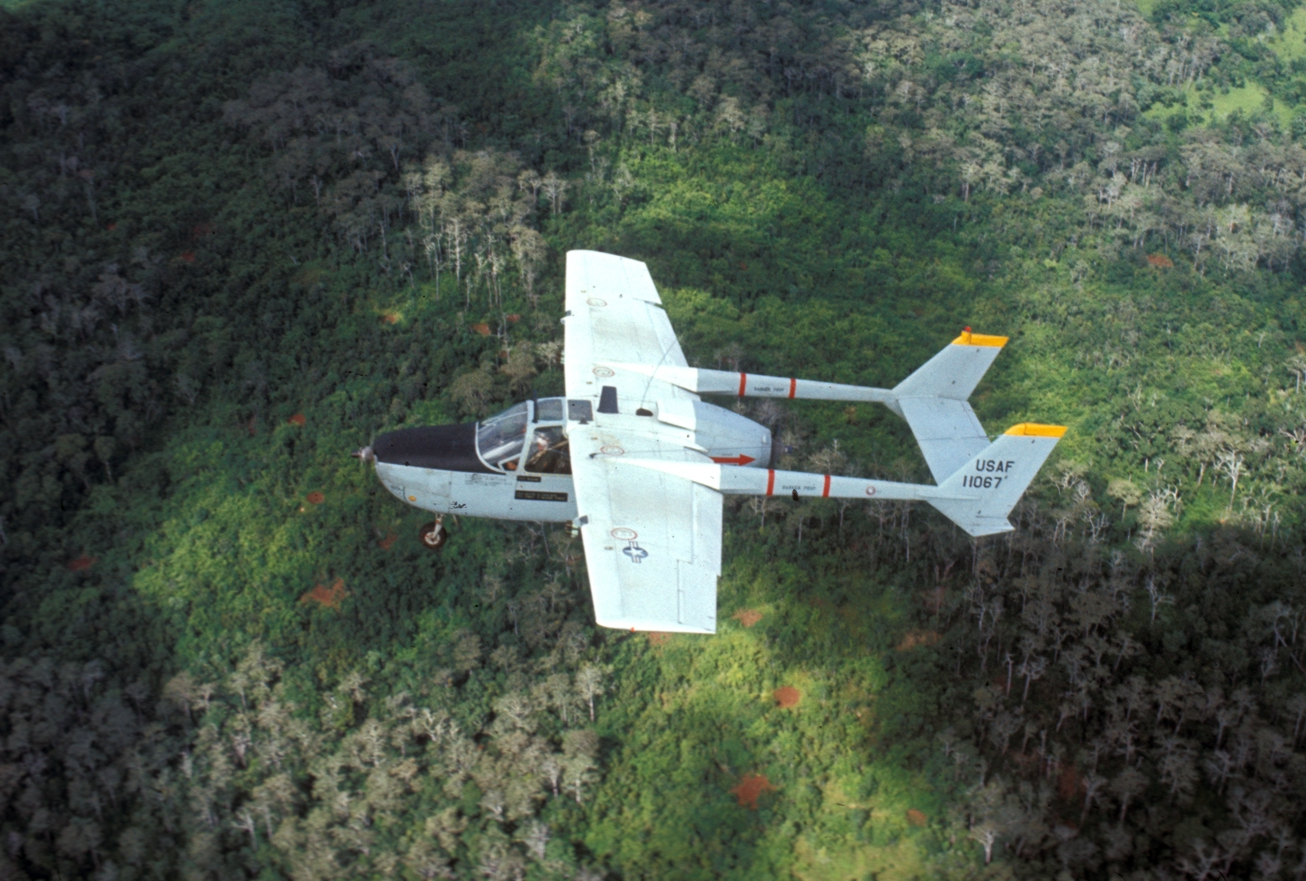 A U.S. Air Force Cessna O-2A-CE Super Skymaster (s/n 68-11067) forward air controller over Laos, 1970.